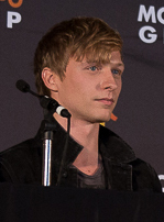 Humans MCM London Comic Con Panel 2015